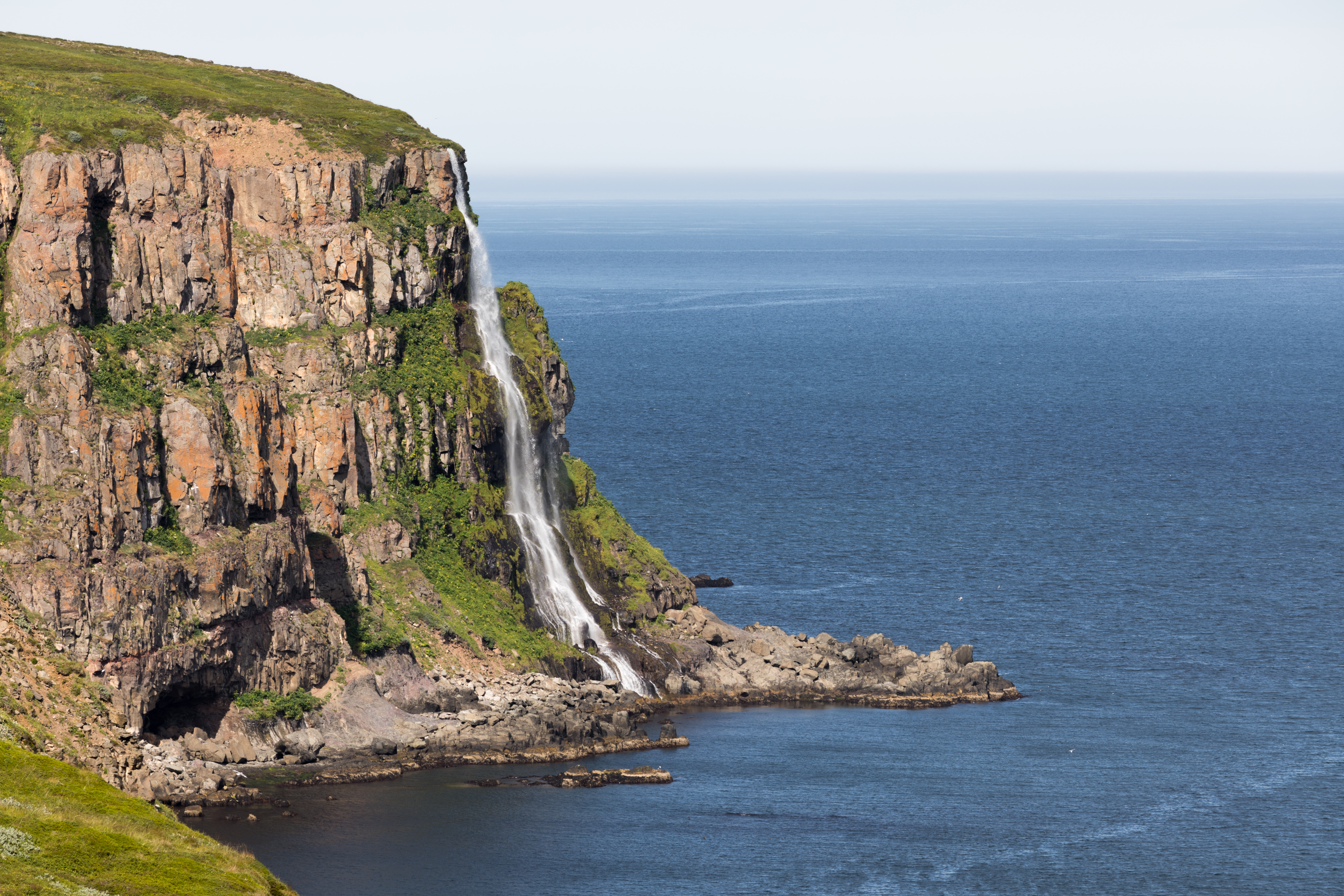 With a waterfall drop of 100m it's one of the highest waterfalls in Iceland.